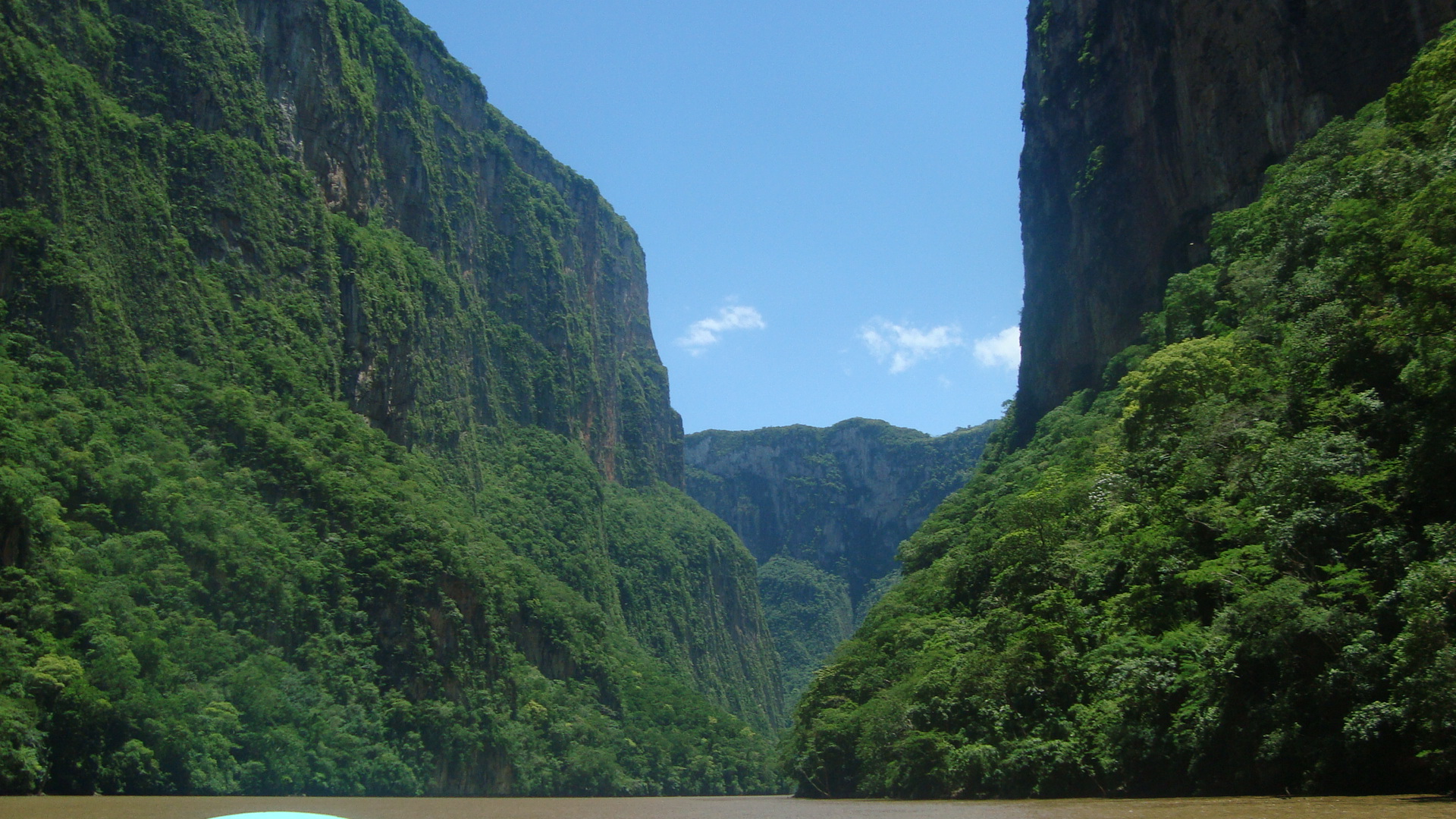 Entrance to Sumidero Canyon — in the state of Chiapas, Southwestern Mexico.